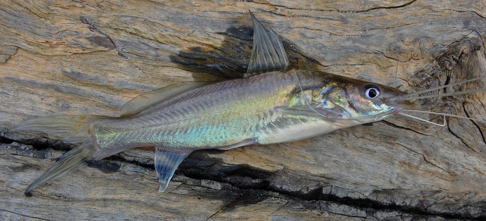 Mystus cf. nigriceps (65mm SL). From Napuh River (2°22.898’S 103°48.907’E), Bayung Lencir, Musi Banyuasin, Province of South Sumatra, Indonesia